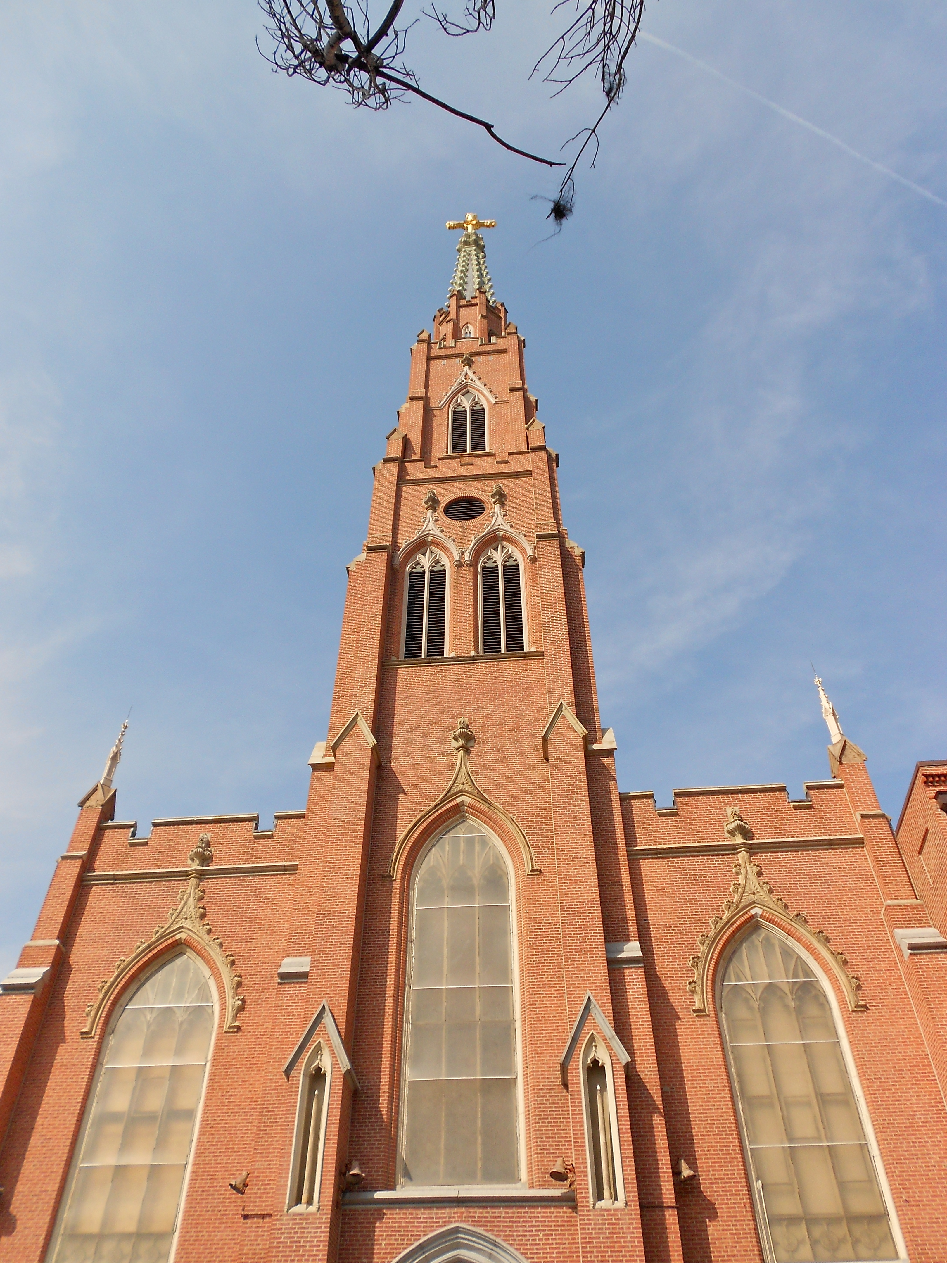 St. Alphonsus' Church, Rectory, Convent and Halle on the NRHP since May 23, 1973. At 112-116, 125-127 W. Saratoga St. in southeast Baltimore, Maryland. Associated with St. John Neumann